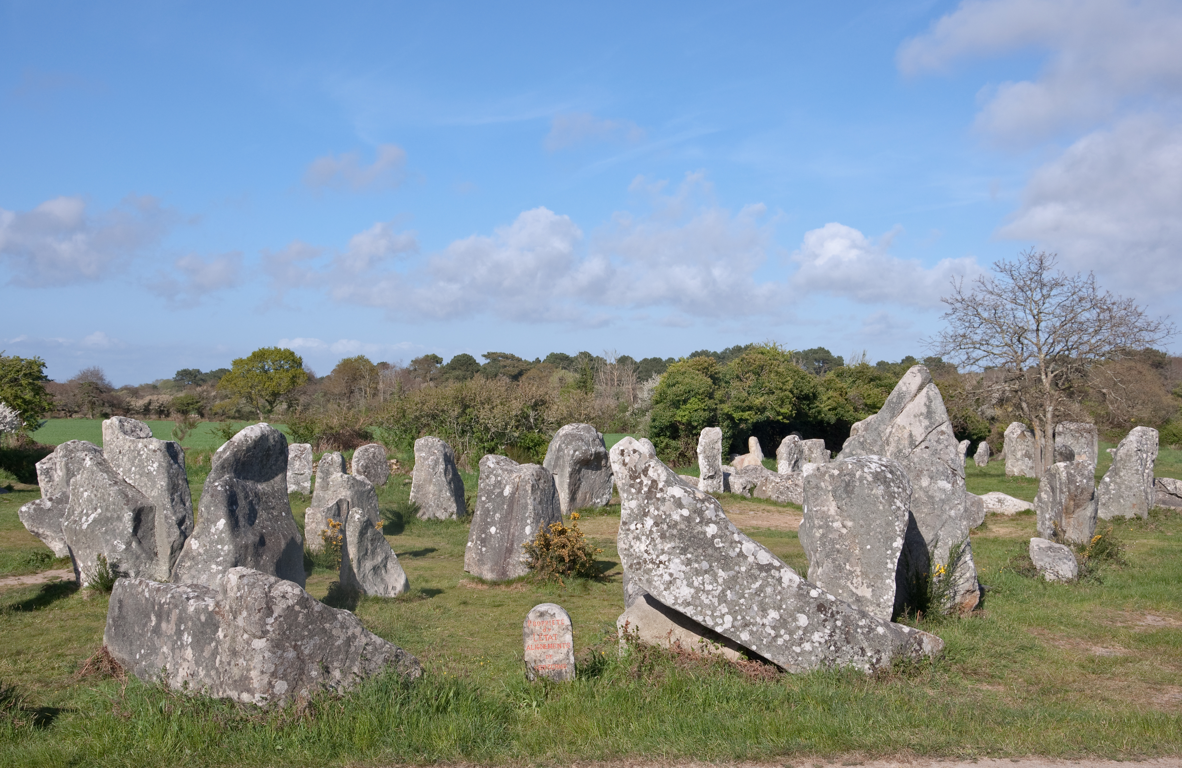 The Kerzerho stone alignment, in Erdeven near Carnac (Morbihan, Brittany, France) .